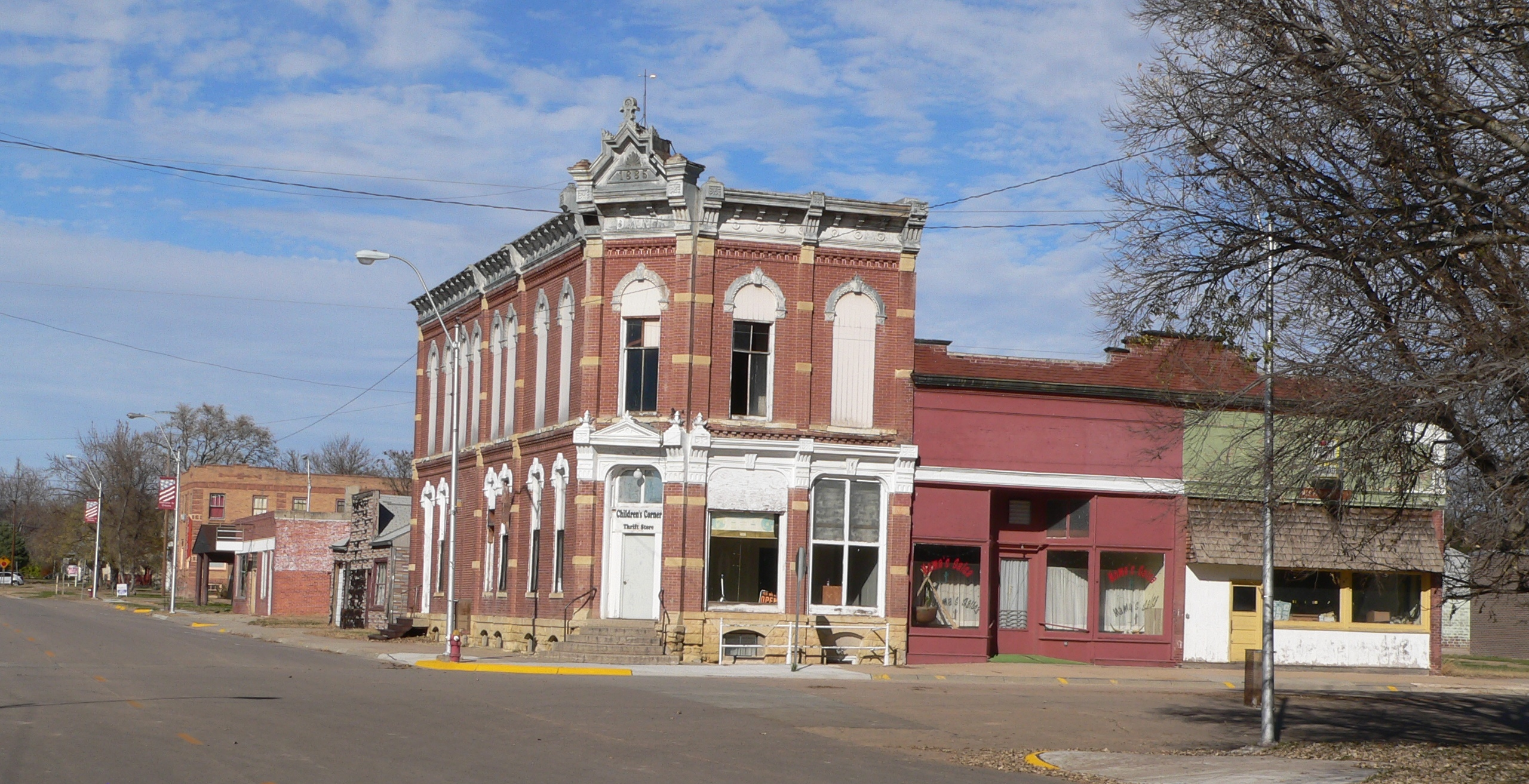 Northeast corner of Orleans Ave. and Maple St., Orleans, Nebraska.